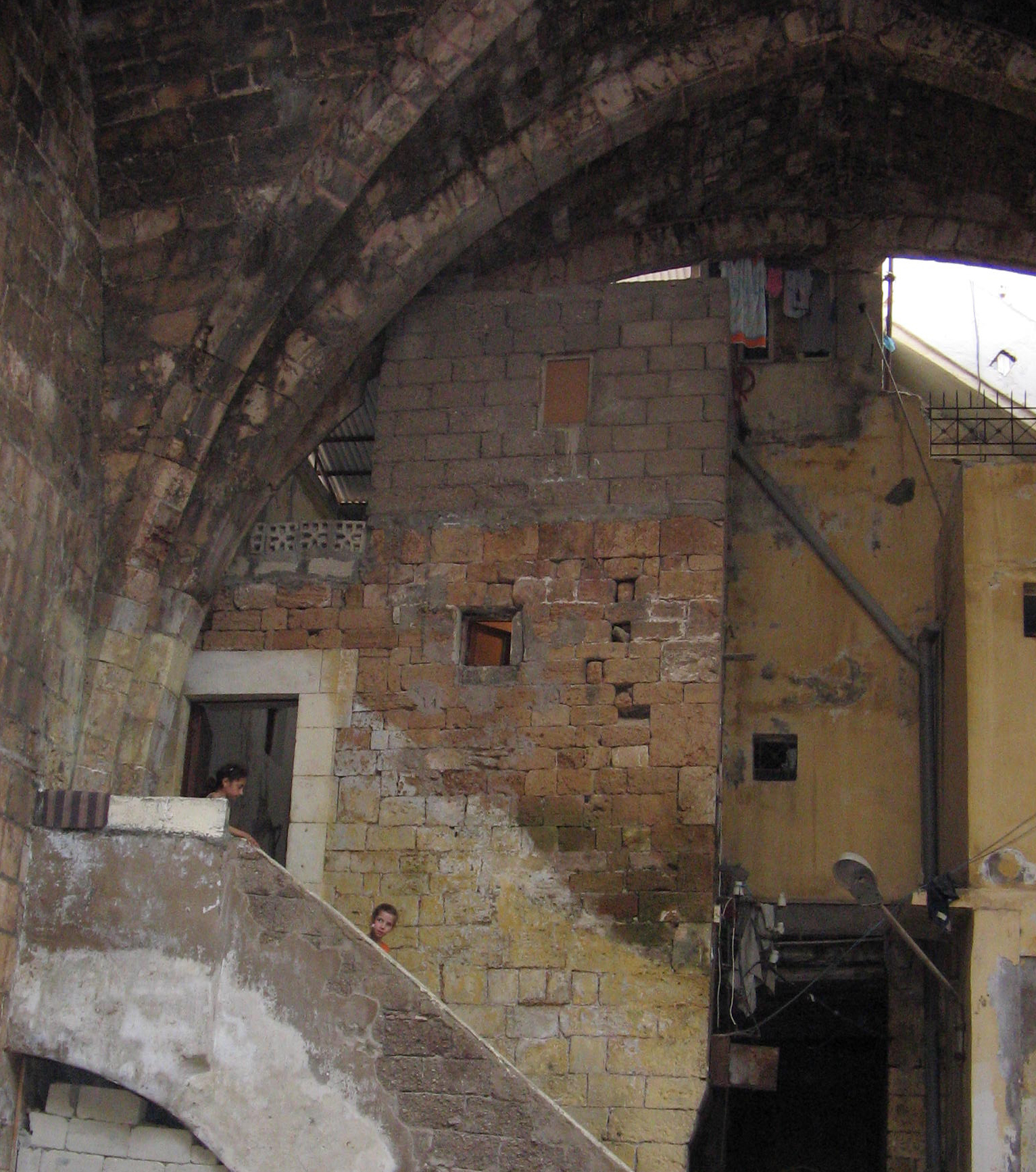 Ruins of the medieval centre, remains of a gothic citadel chapel, with modern houses inside, Tartus in 2006